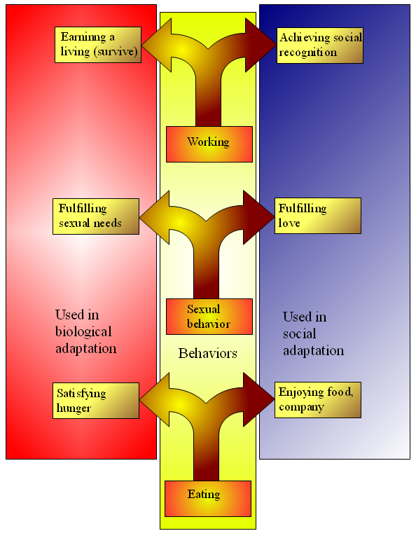 Based on information from Tapu, CS, Hypostatic Personality: Psychopathology of Doing and Being Made, Premier, 2001.